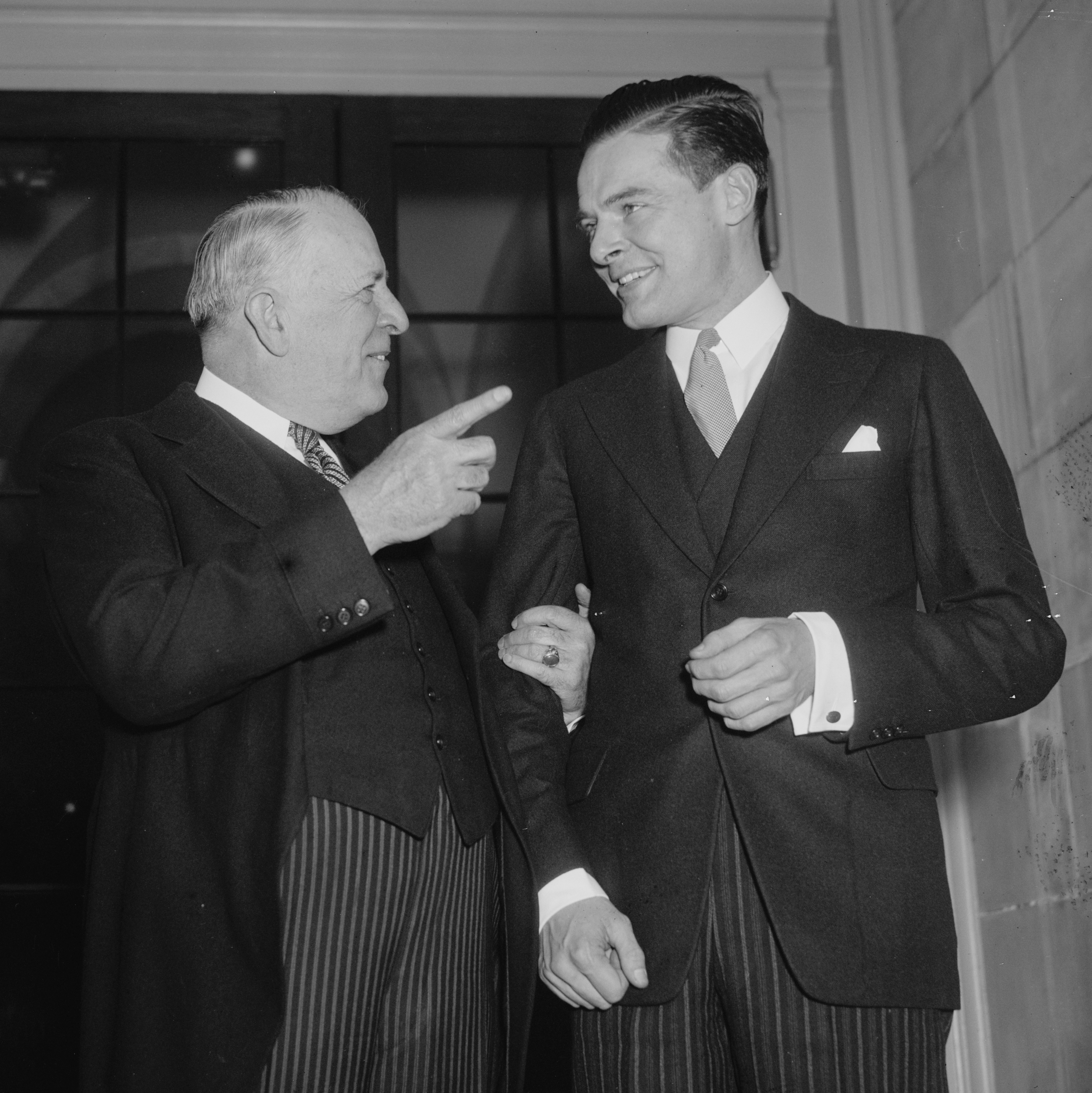 Title: Veterans advice for rookie Senator. Washington, D.C., Jan. 5. Senator David I. Walsh, Democrat from Massachusetts, greets the new junior Senator, Henry [Cabot] Lodge, Jr., Republican from the bay state. Senator Lodge is 34 years old. He covered the Capitol for a Boston newpaper about 10 years ago Abstract/medium: 1 negative : glass ; 4 x 5 in. or smaller